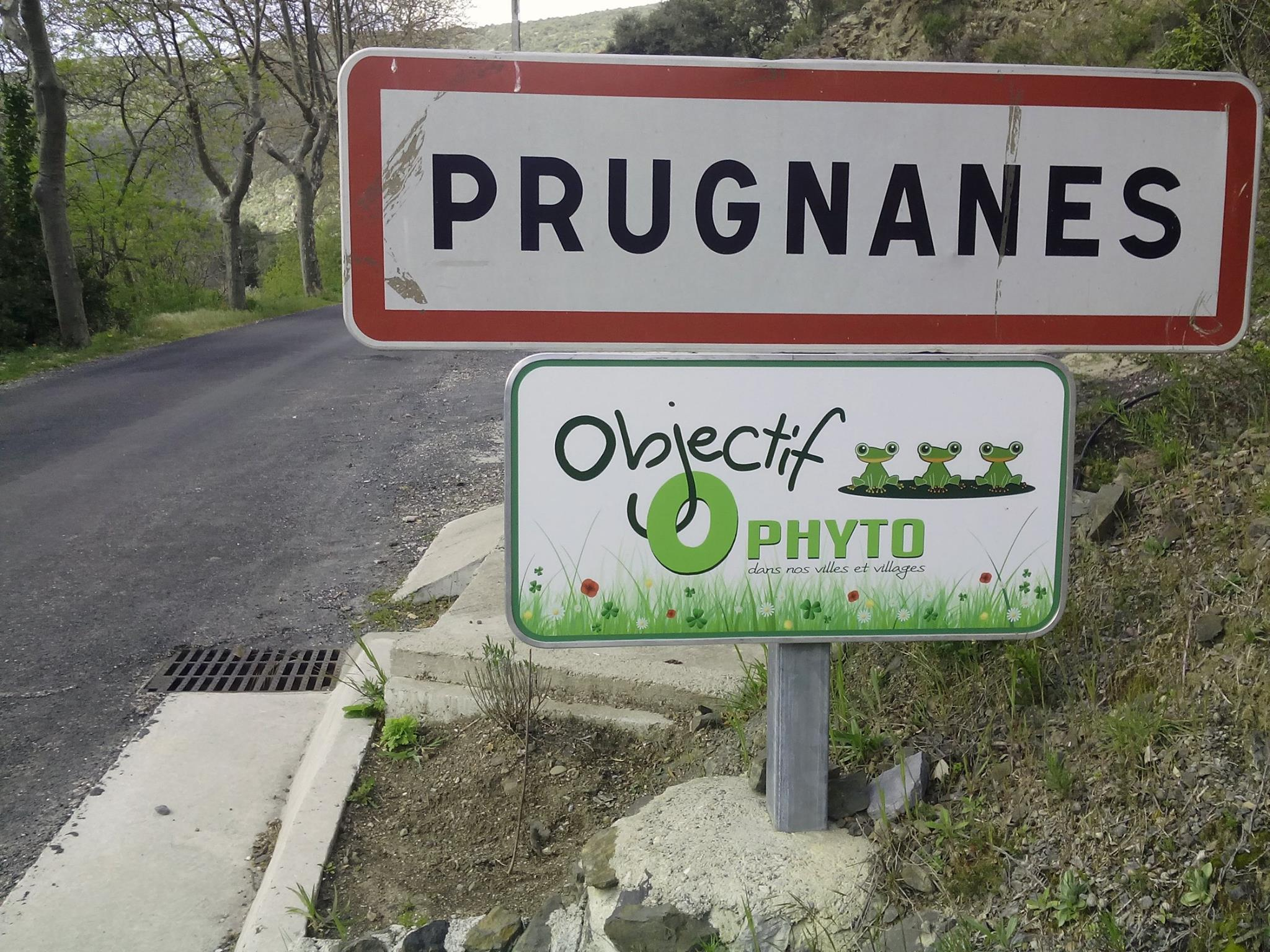 City limit sign in Prugnanes